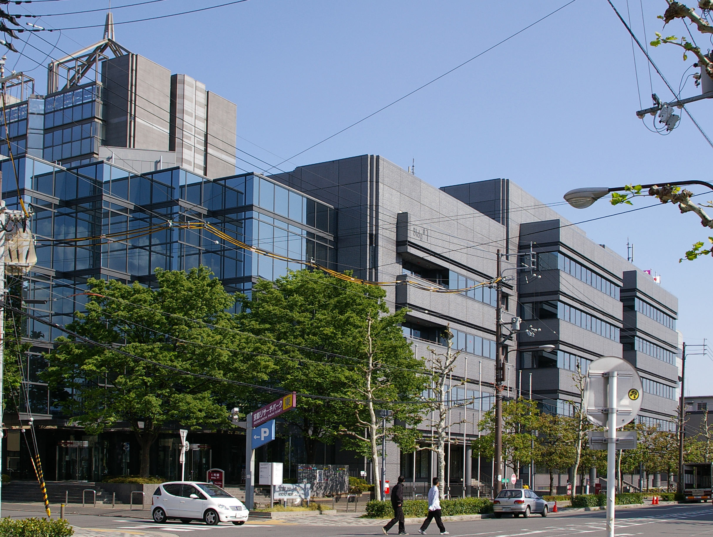 Photograph of Kyoto Research Park (East area) in Shimogyo-ku, Kyoto, Kyoto Prefecture, Japan.